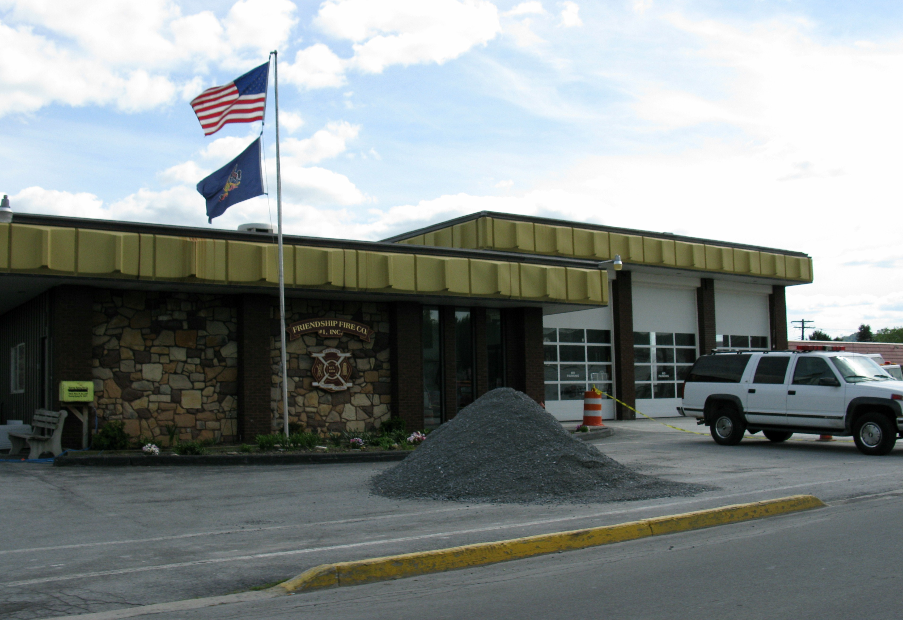 Frienship Fire Company, Roaring Spring, Pennsylvania